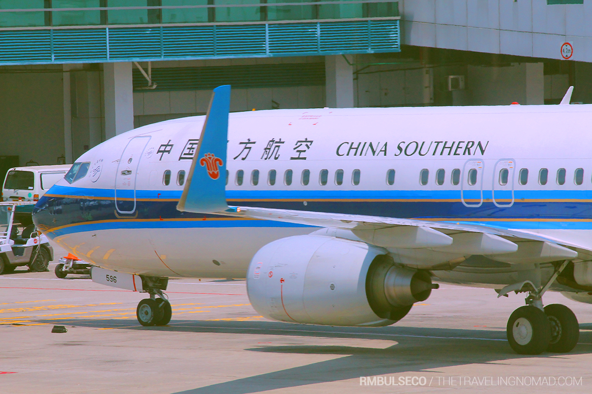 Terminal 1 planespotting